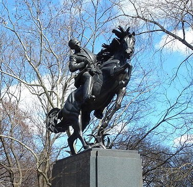 Photograph of the statue in Central Park, New York City, NY USA. Sculpted in 1959 by Anna Vaughn Hyatt Huntington (USA 1876-1973) - Gift of the artist to the Cuban government [1]